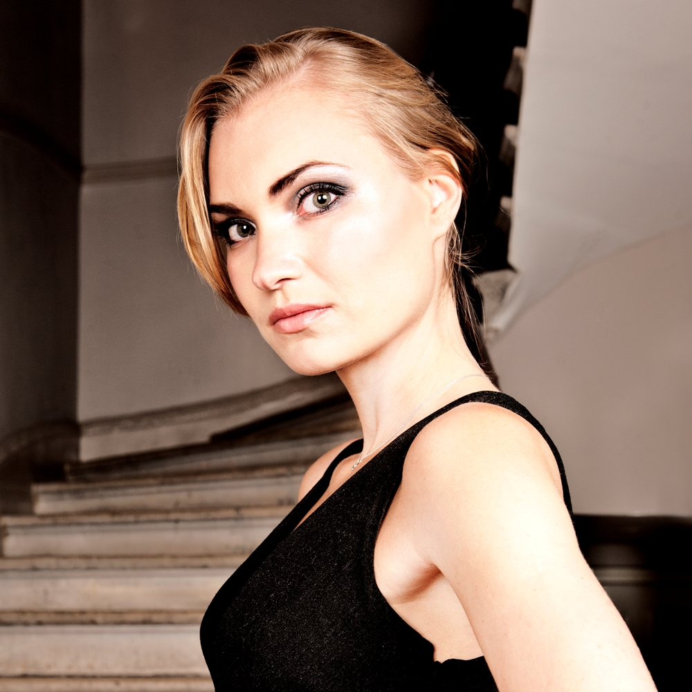 Marinika Smirnova